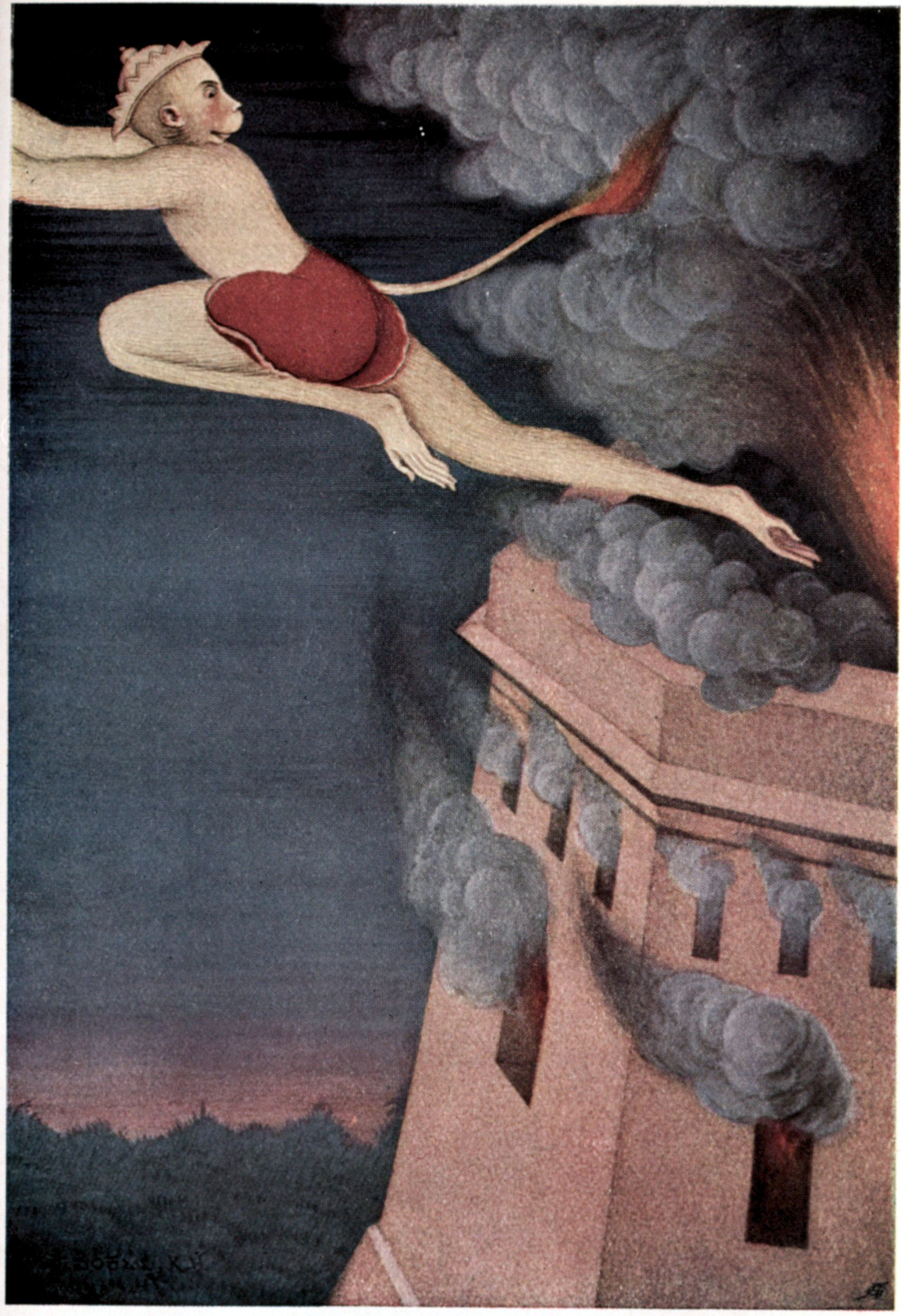 Myths of the Hindus & Buddhists (1914) p. 72: Burning of Lanka by K. Venkatappa